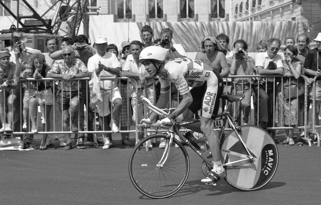 Greg LeMond (USA) starts the 21st and final stage of the 1989 Tour de France, a 24.5km TT from Versailles – Paris (Champs-Élysées).